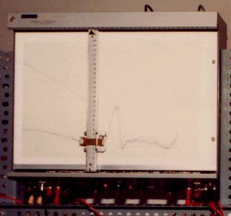 An analog xy recorder from HP